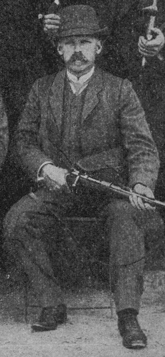 Heikki Hallamaa (1867–1951), a Finnish Olympic shooter, in 1908. Cropped from Finland 1908 Olympic shooting team.png.